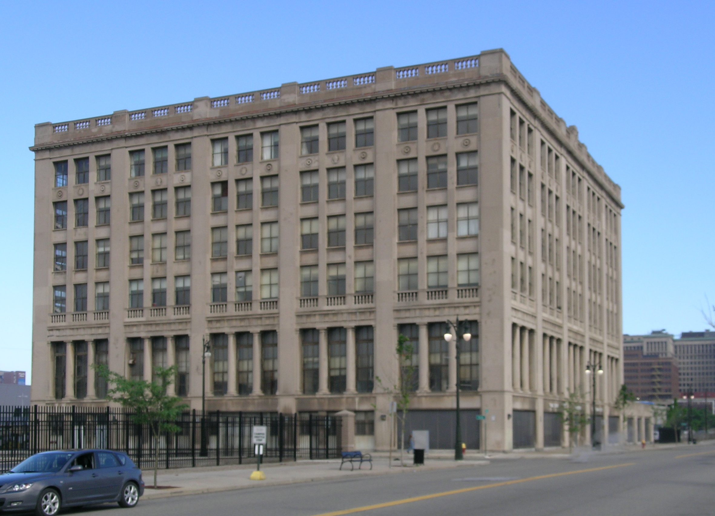 The historic Cadillac Sales and Service Building at 6001 Cass Avenue, Detroit, Michigan, United States, lies within the New Amsterdam Historic District.